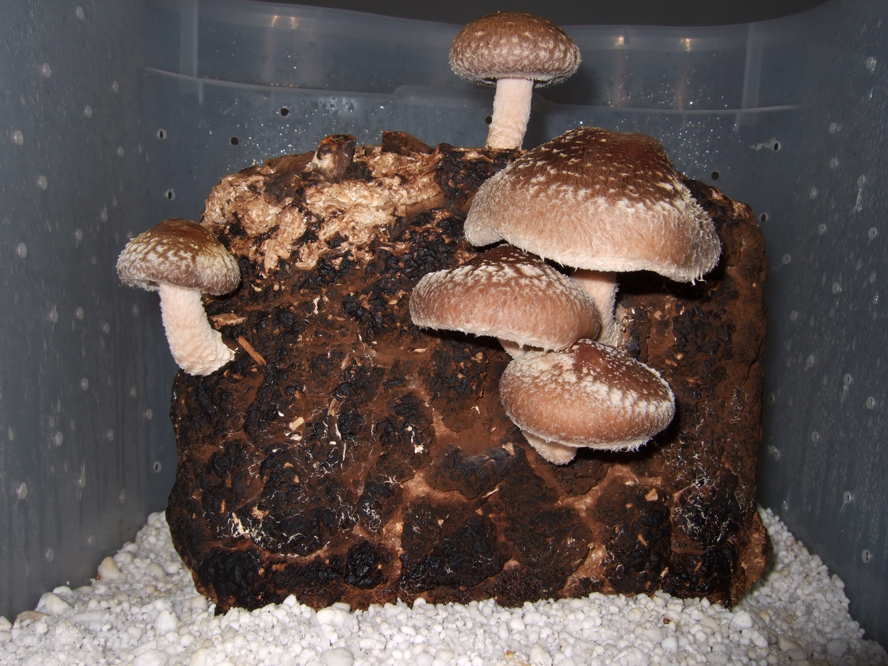 I purchased this mushroom kit from Fungi Perfecti. This is the third flush from this block.